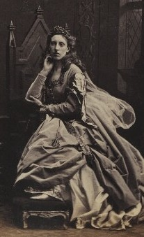 Miss James by Camille Silvy / albumen print, 13 March 1866 / 3 1/4 in. x 2 1/4 in. (82 mm x 56 mm) image size / Purchased, 1904 / Photographs Collection of National Portrait Gallery / NPG Ax64756